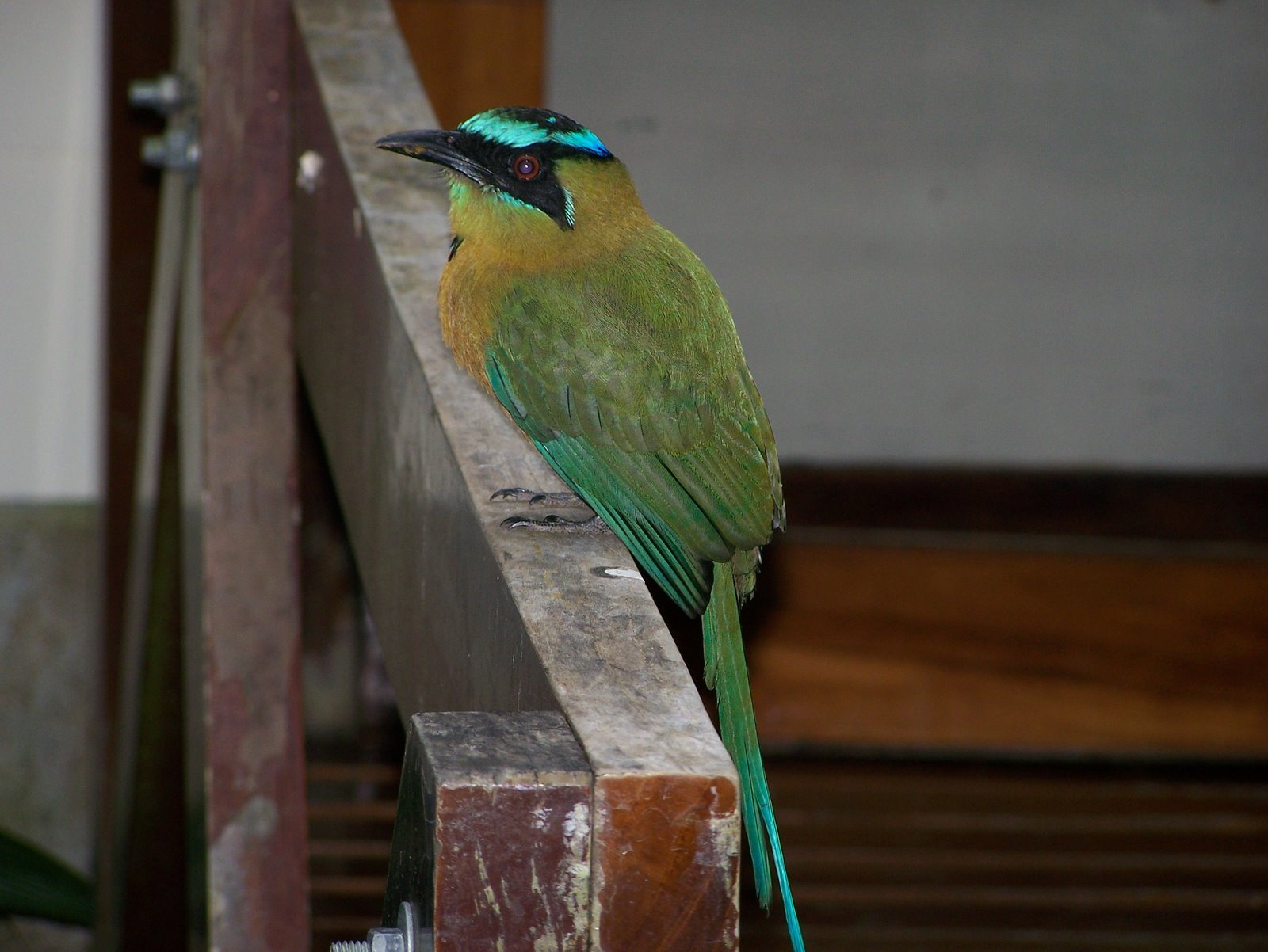 Blue-crowned motmot, Momotus momota lessonii, near Manuel Antonio, Costa Rica